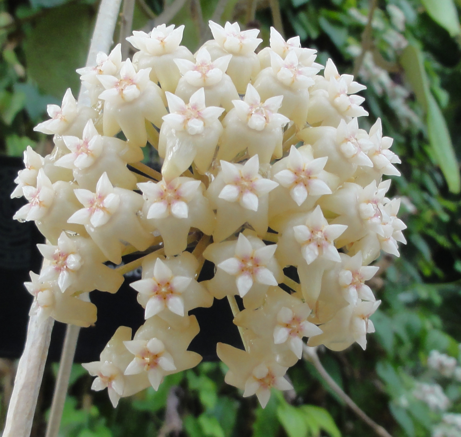 Hoya loyceandrewsiana, singel inflorescence, Auckland Winter Garden